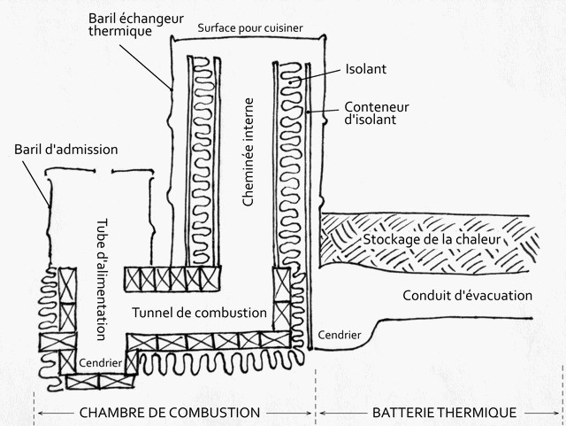 Rocket mass heater section